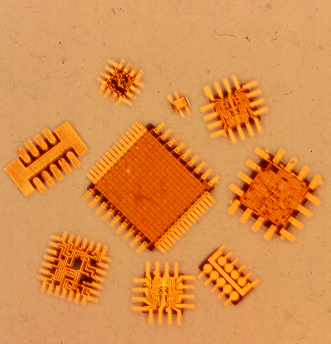 Beam leaded silicon integrated circuit chips of various sizes showing the extended electroformed beam leads attached to the metallized chips.